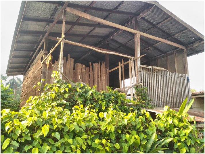 Ban Nam Rid, Uttaradit